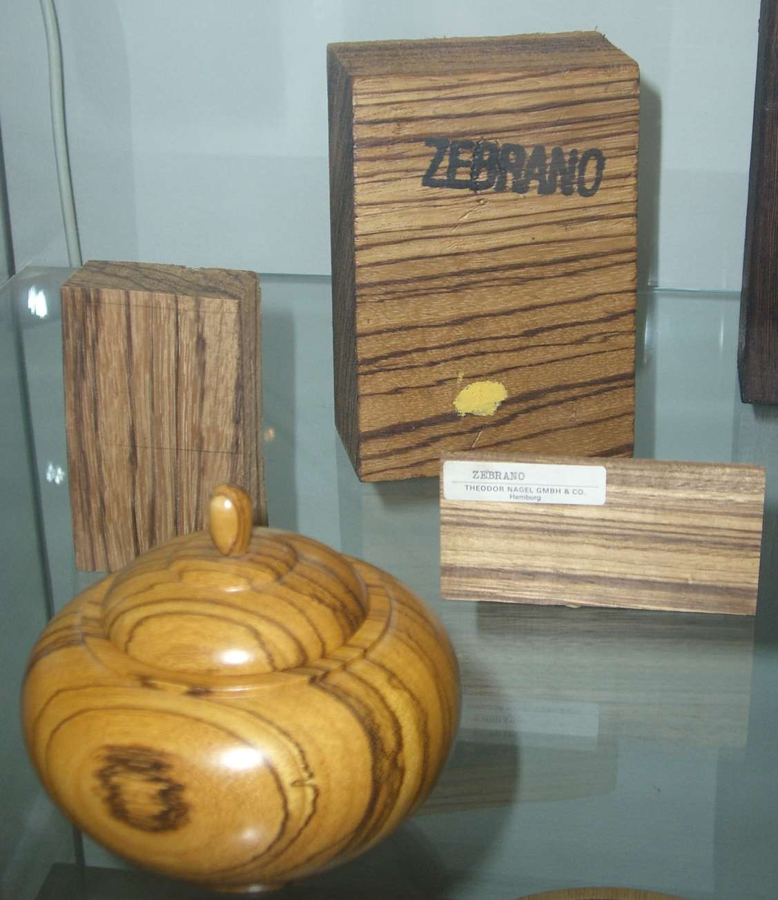 Zebrano, Museum, Seiffen, Germany